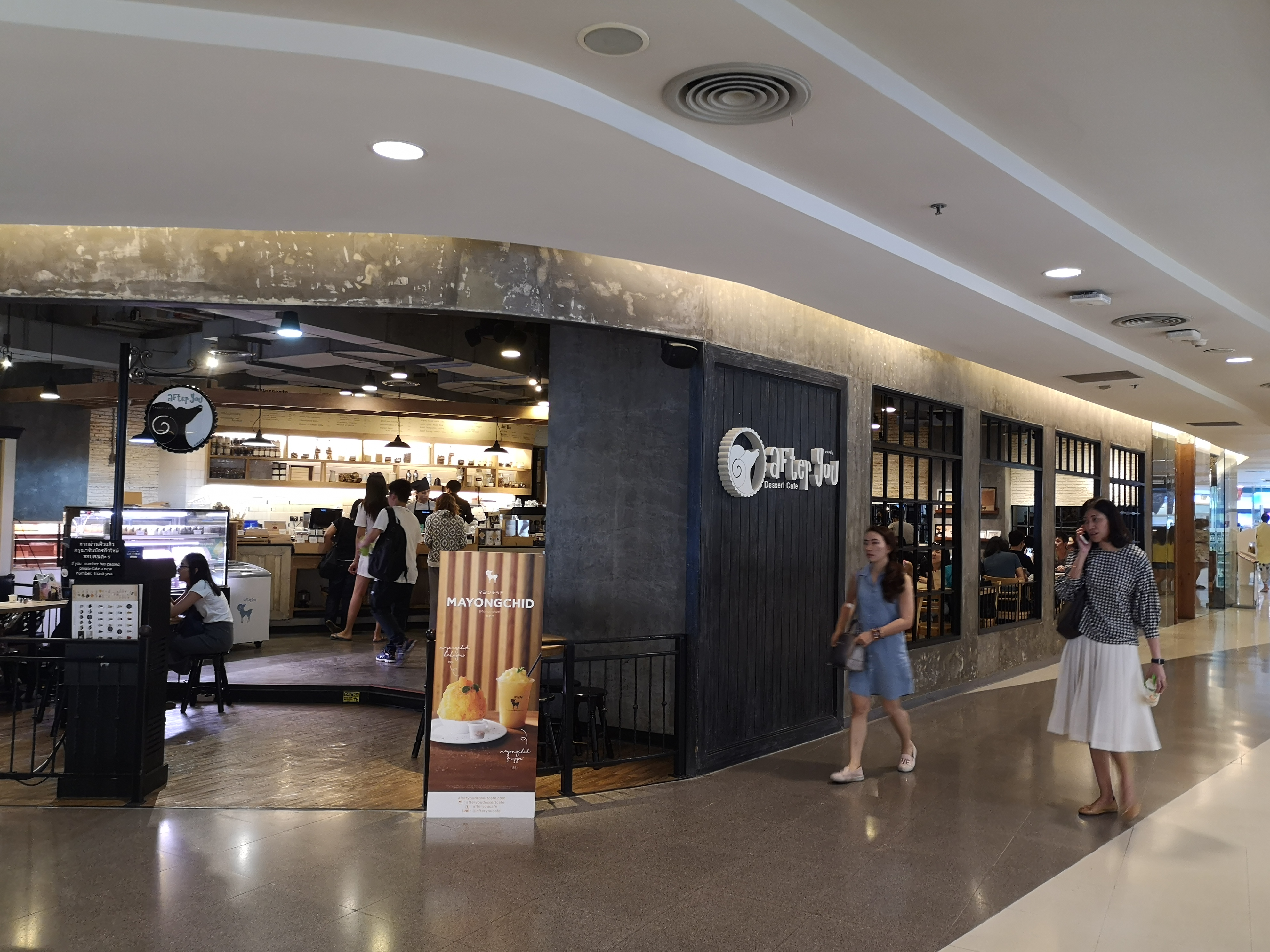 After You at Central Silom Complex